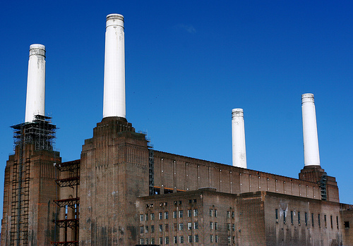 Battersea Power Station Taken by Nick Fraser, Feb 2006. Category:Images of London